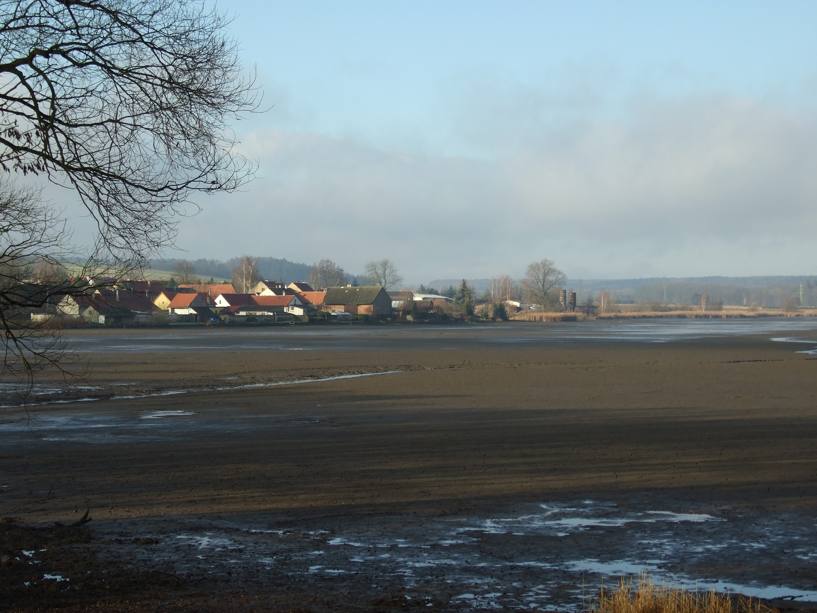 The village of Lodenice, part of Mšecké Žehrovice in Rakovník district. The village can be seen behind pond built on the river of Kačák, Central Bohemian Region, CZhelp